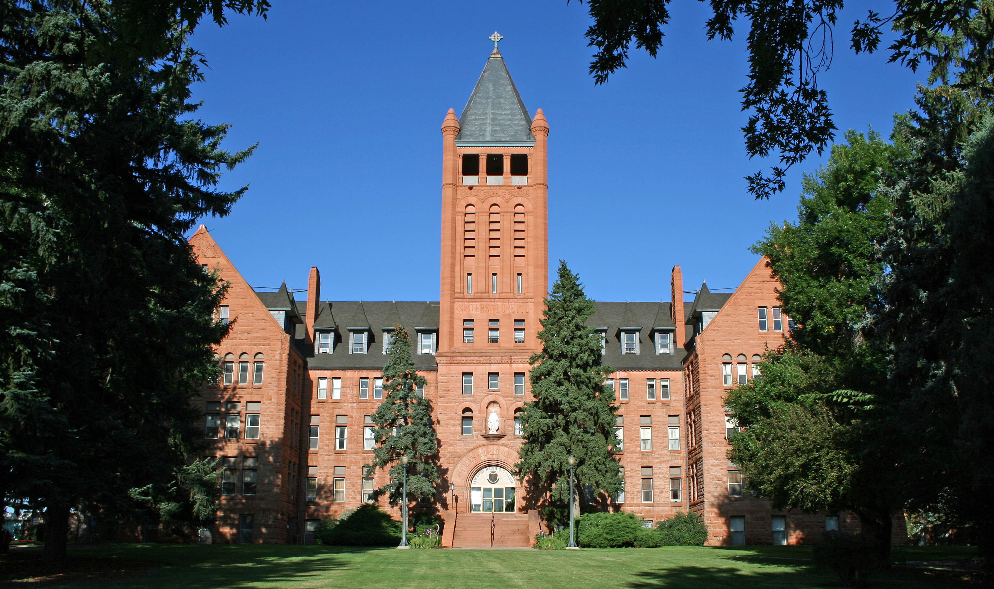 The Loretto Heights Academy, located at 3001 S. Federal Boulevard in Denver Colorado. The academy is listed on the National Register of Historic Places. Today it is called Colorado Heights University.